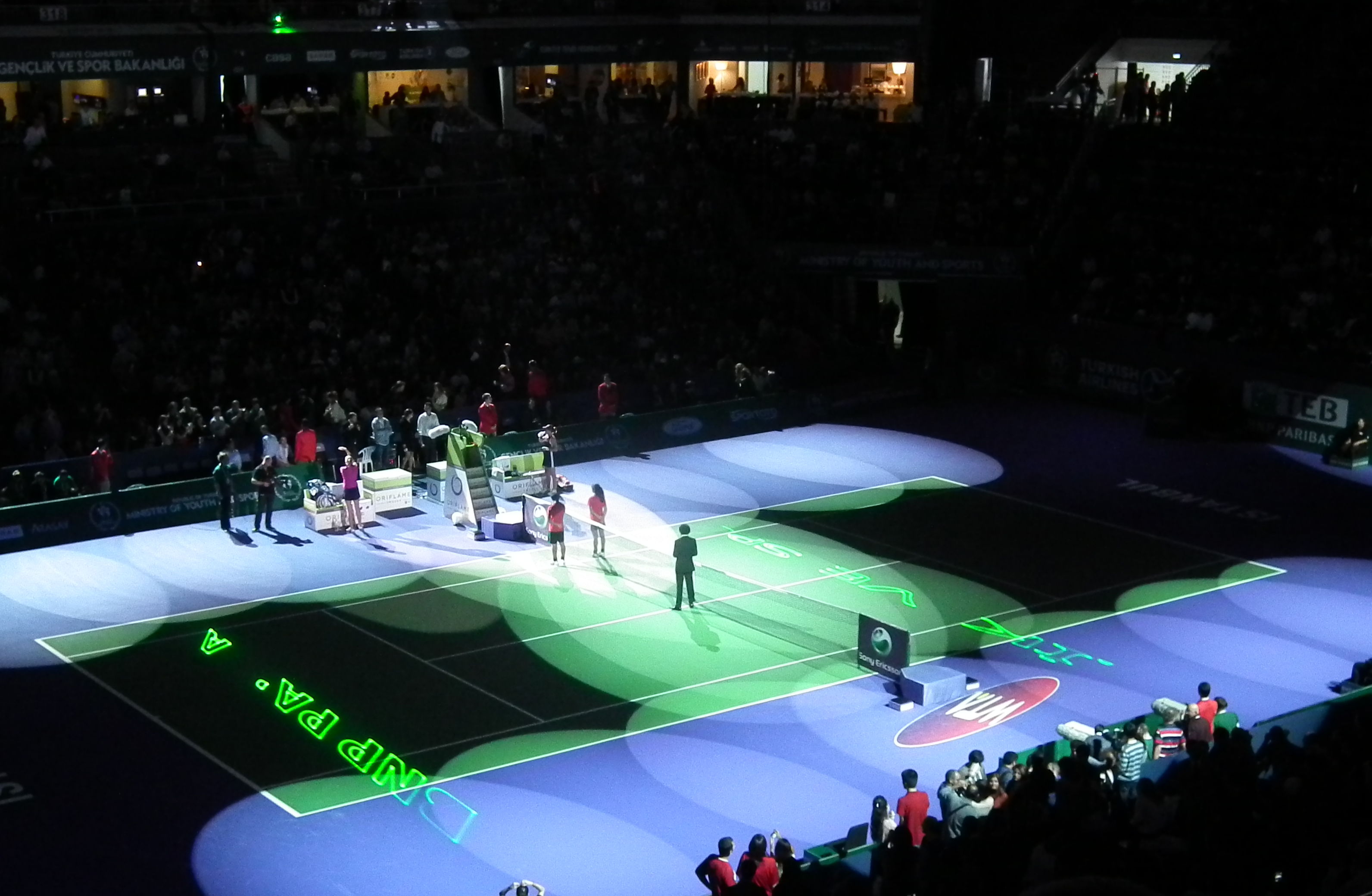 Photo from 2011 WTA Tour Championships at Sinan Erdem Dome, Istanbul